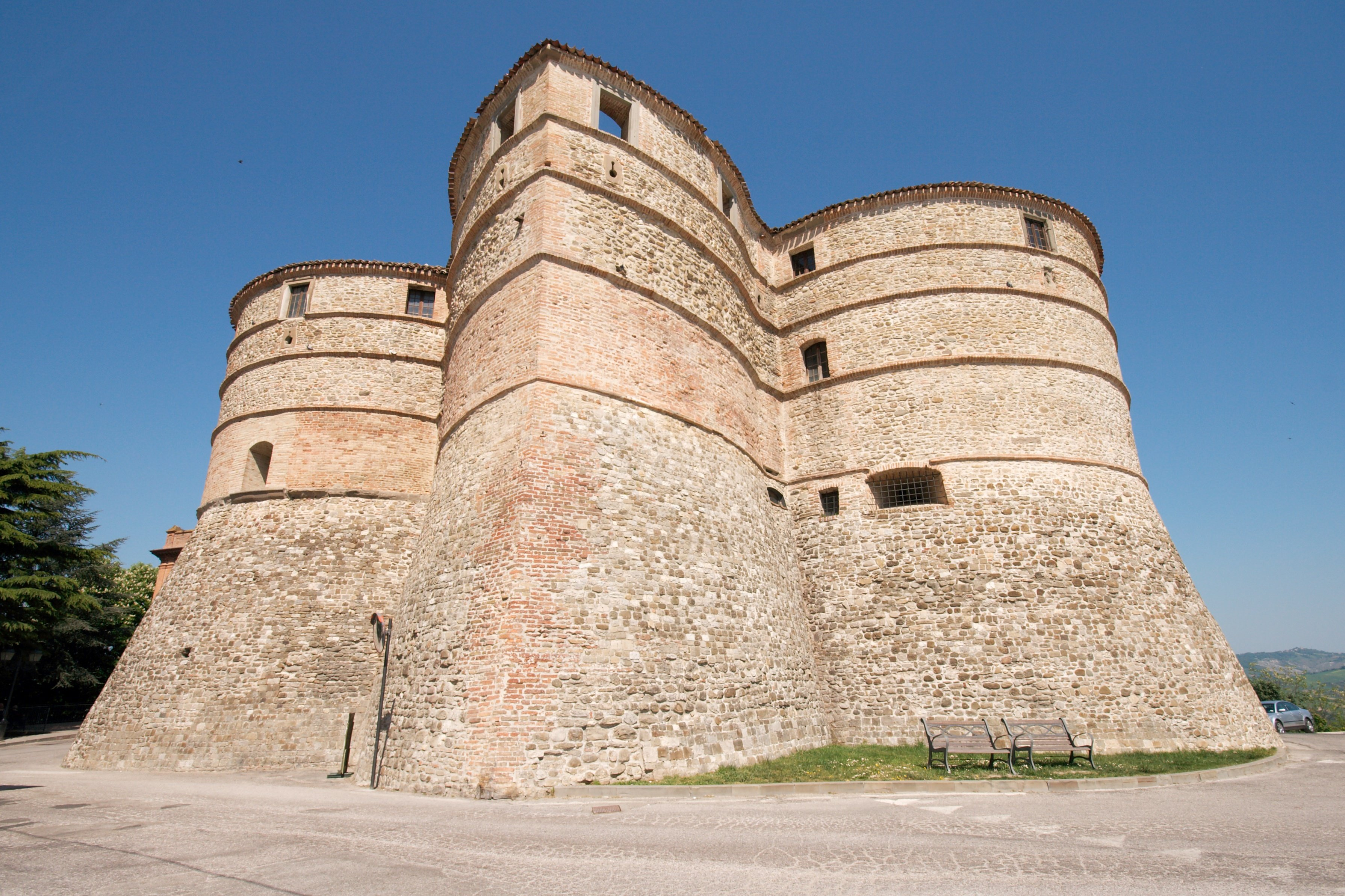 A little castle in Sassocorvaro.